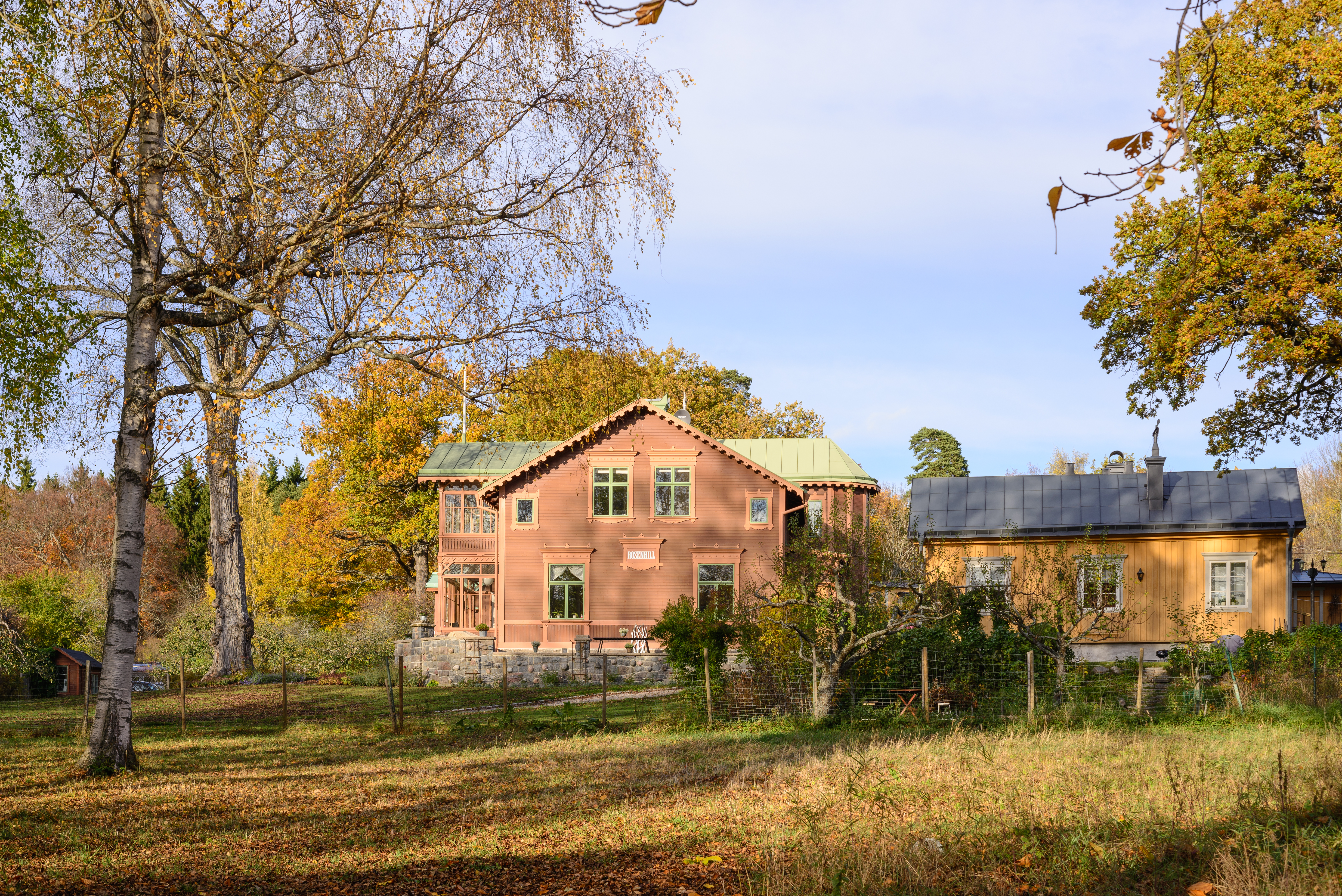 Rosenhill, a historic villa at Djurgården, Stockholm.